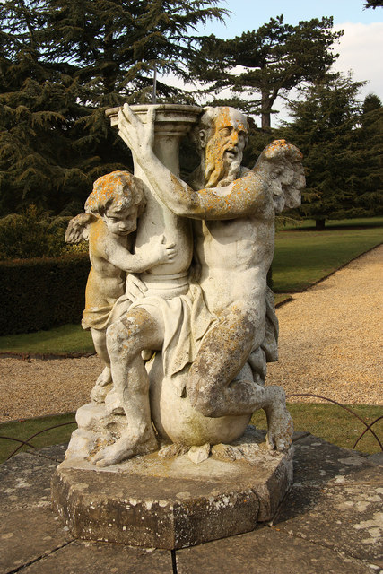 Sundial in Belton House gardens, the subject of Helen Cresswell's 1987 novel Moondial, dramatised as a BBC series in 1988. Correctly called Lord Tyrconnel's sundial, it depicts carved limestone figures of Time and an attendant Cherub by Caius Gabriel Cibber, with a bronze sundial by Thomas Wright dated 1725.